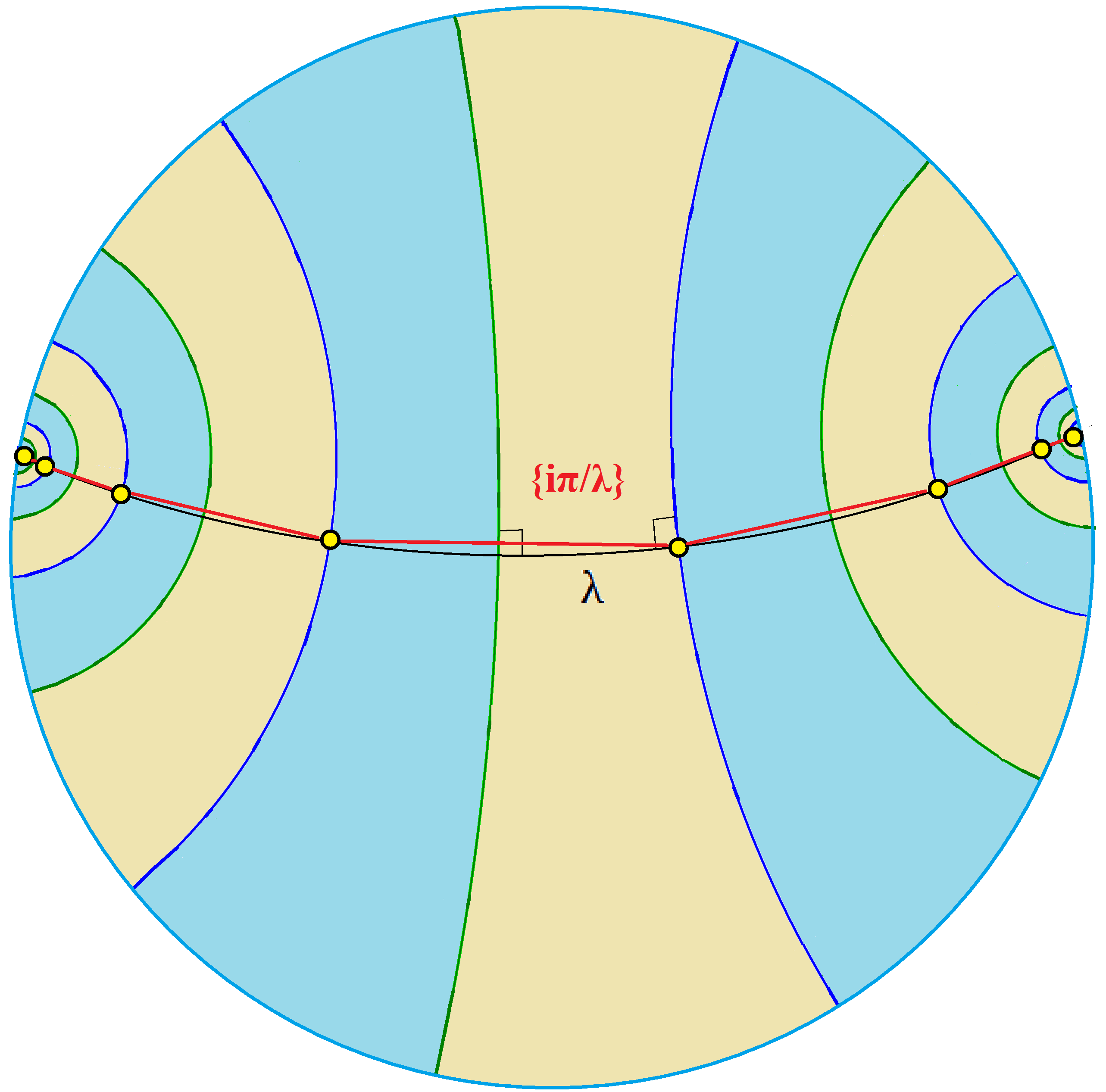 Added red pseudogon on File:Dihedral symmetry ultra.png